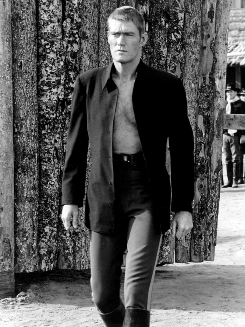 Photo of Chuck Connors as Jason McCord from the television program Branded. McCord, an Army captain, was accused of cowardice, found guilty, and stripped of his military title. The sequence where he is cashiered out of the army was the opening sequence of every episode; McCord was then seen (as in the photo), walking away from the fort where he served--the fort's gates closing behind him.